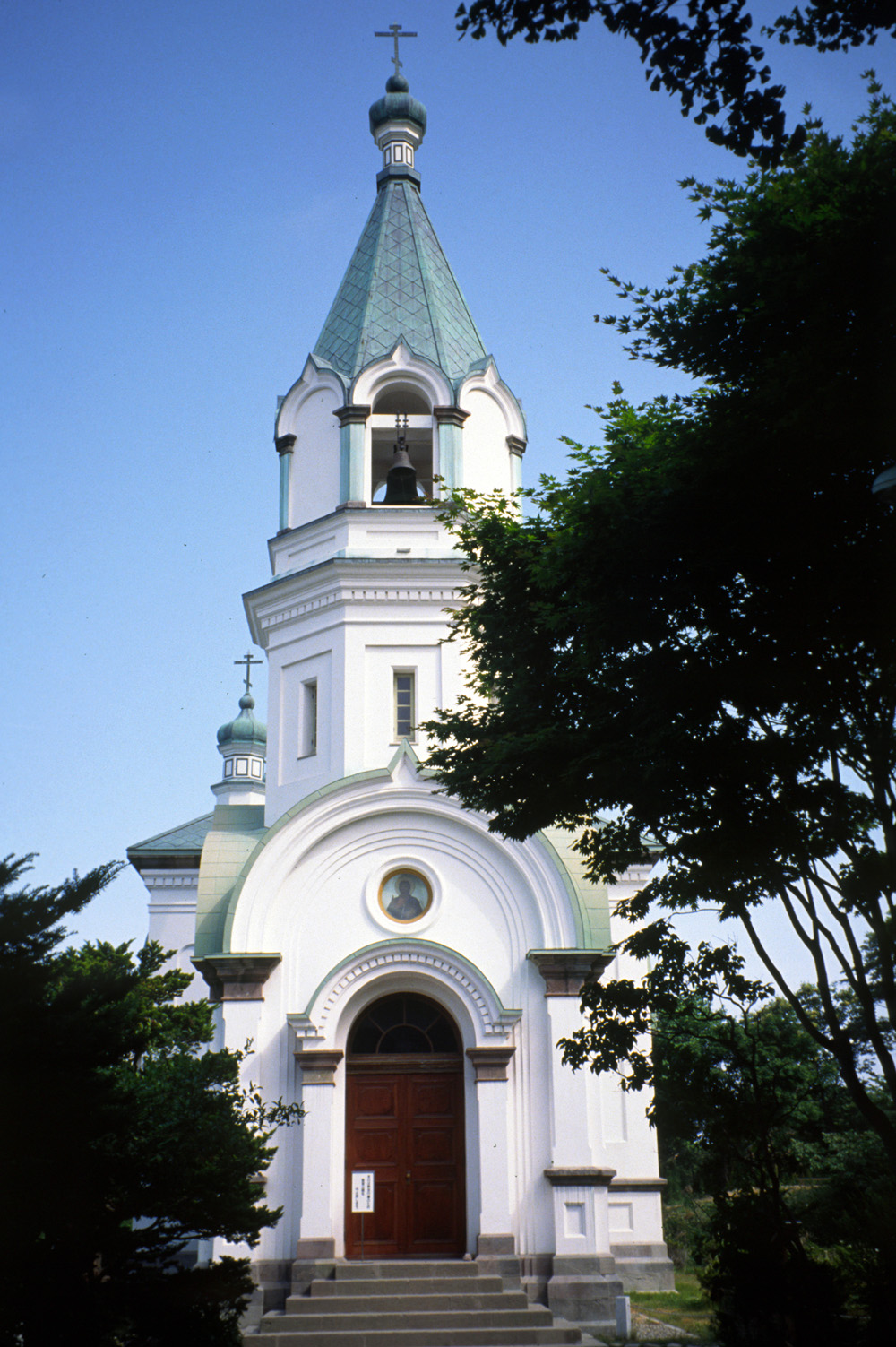 Church, Hakodate, Hokkaido, Japan. I took this photo and contribute my rights in the file to the public domain; people and organizations retain rights to images in it.